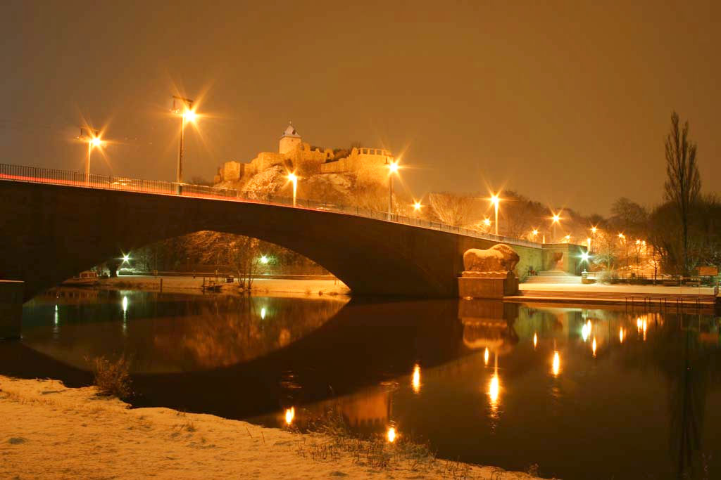 Giebichenstein Castle with Bridge